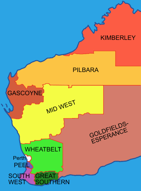 Nine regions of Western Australia (plus perth) I made the image using info on [1].